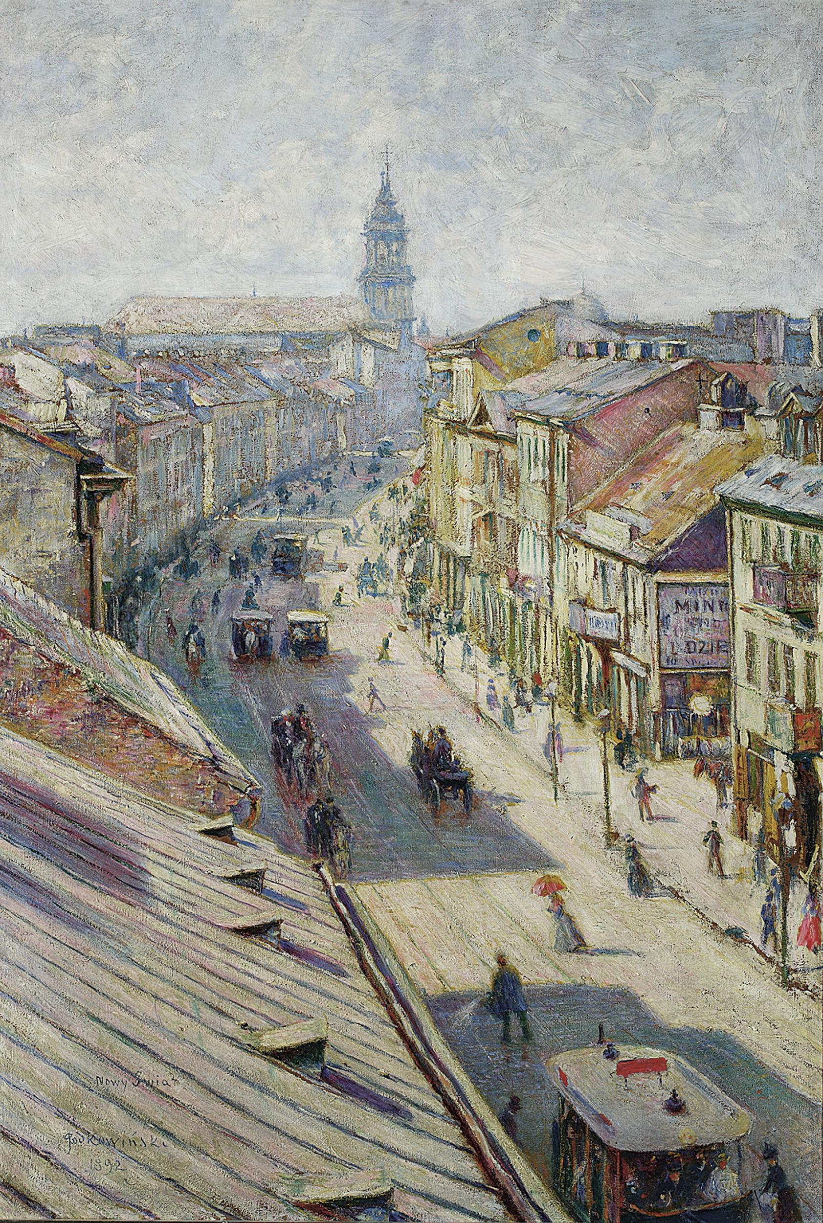 View from artist's window